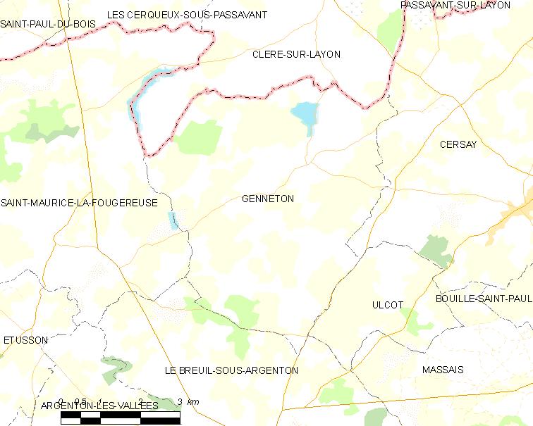 Map of French municipality Genneton